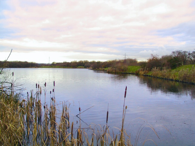 Blackleach Country Park. The lake at Hilltop, in the Blackleach country park, bounded by the M61 and the A575.